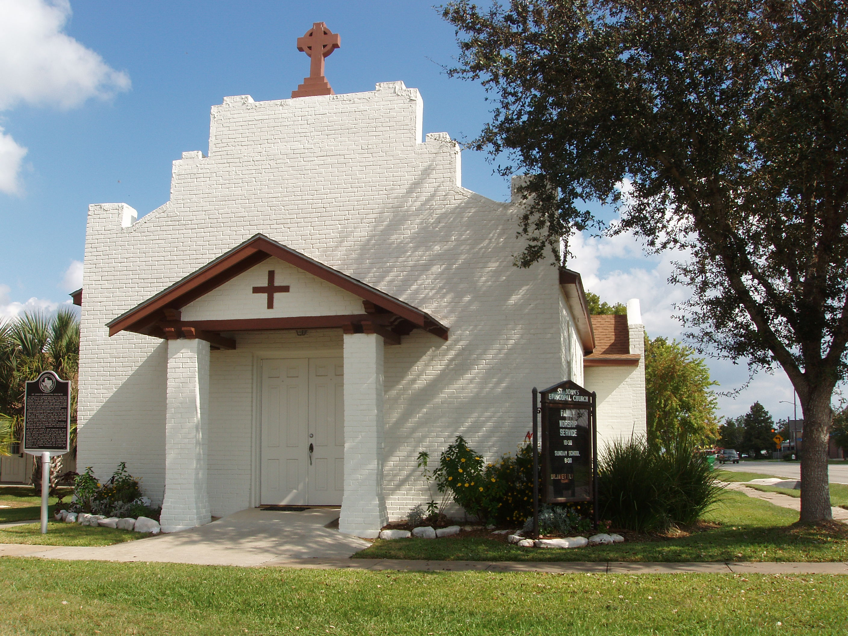 St. John's Episcopal Church, Palacios, Texas